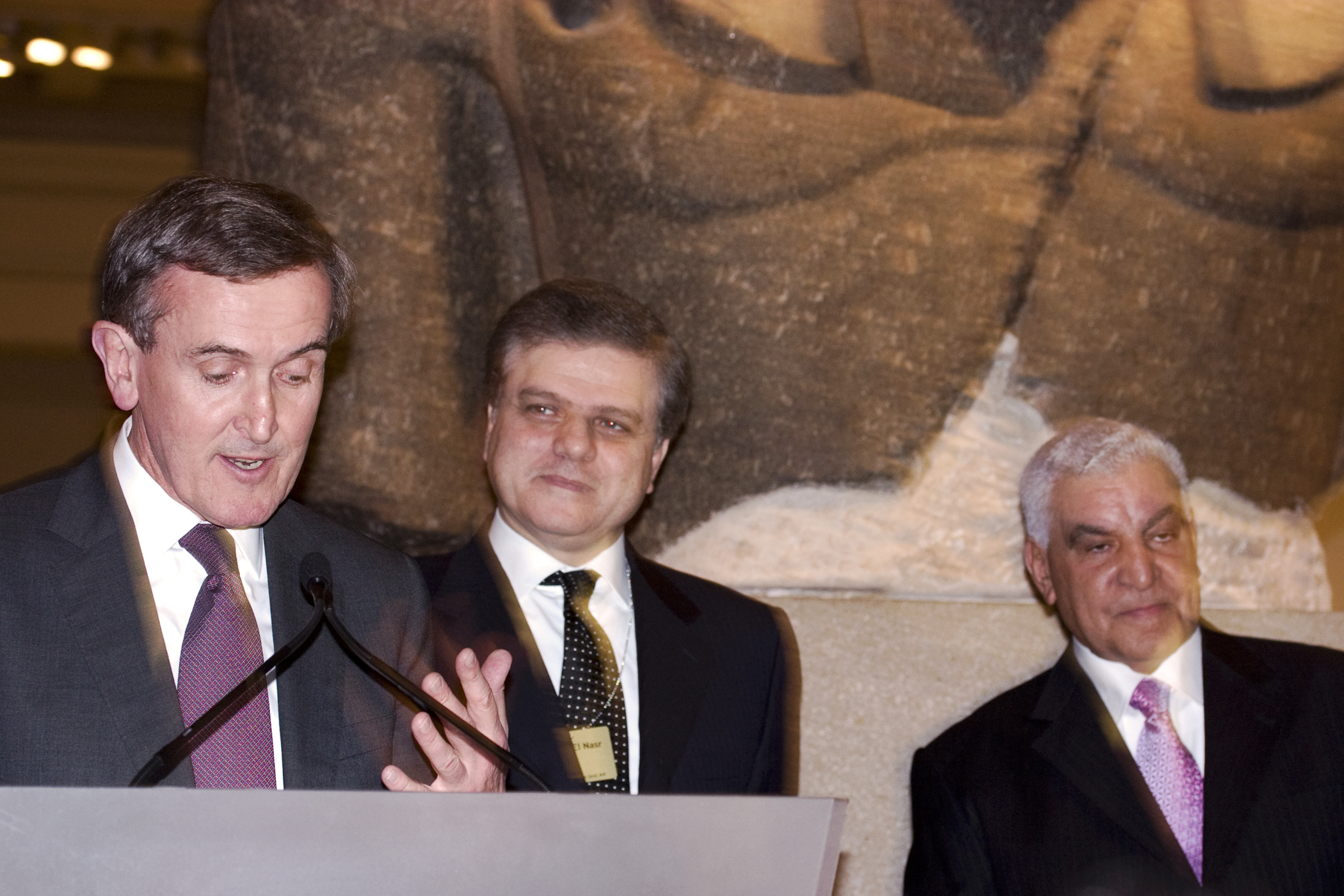 Neil MacGregor, director of the British Museum. (Carefully avoiding all mentioning of Marbles or other Big Stones. ;)) Shot at the 'Dr Hawass Special' at the British Museum, ( Sean's write-up of the event ). If you still want to catch Zahi Hawass in London, he's signing his new books (A Secret Voyage & Inside the Egyptian Museum) at Harrods on Dec 10th.